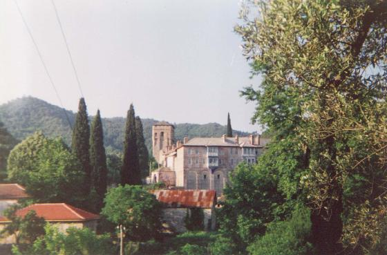 Hilandar Monastery (Serbian), Mount Athos, Greece.